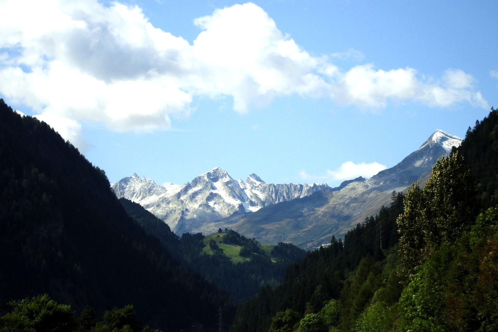 View of Pizzo Rotonto, Pizzo Pesciora and Witenwasserenstock (center) from the Leventina Valley (Ticino). These peaks are located on the border between the cantons of Valais and Ticino.